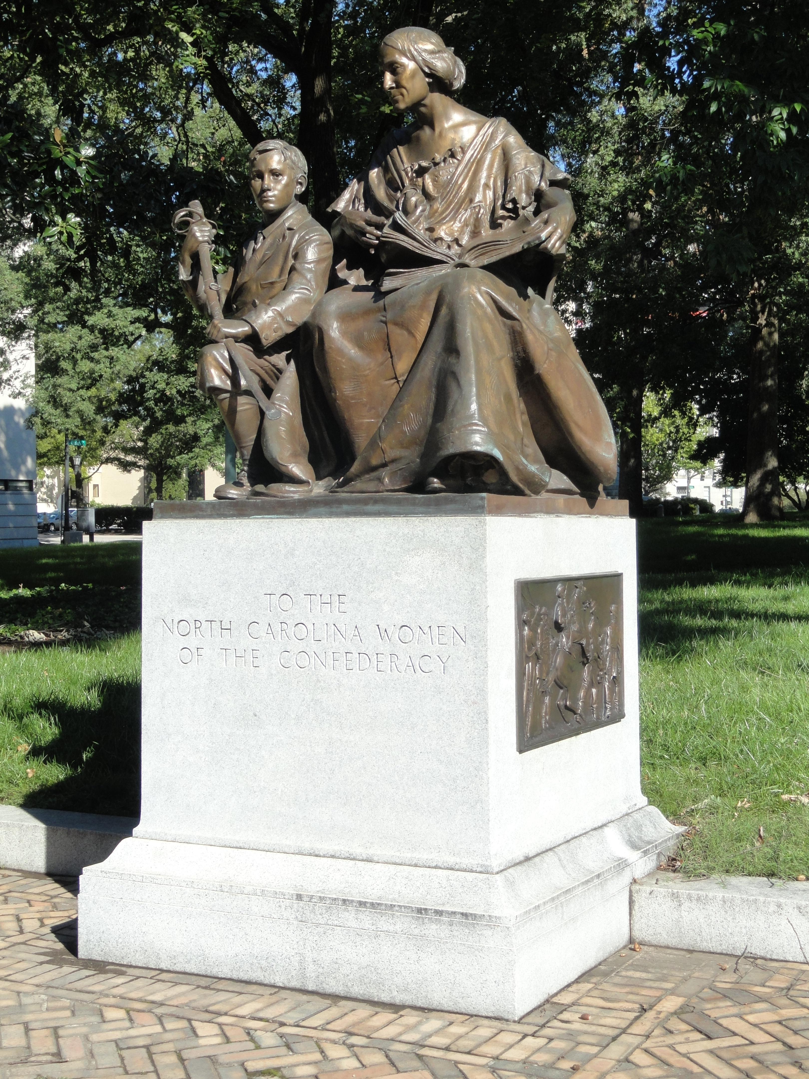 Women of the Confederacy by Augustus Lukeman, located on the grounds of the North Carolina State Capitol, Raleigh, North Carolina, USA. Monument dedicated on June 10, 1914. This statue is in the public domain because it was first published before 1923.